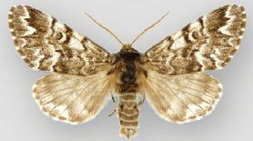 Panthea acronyctoides male